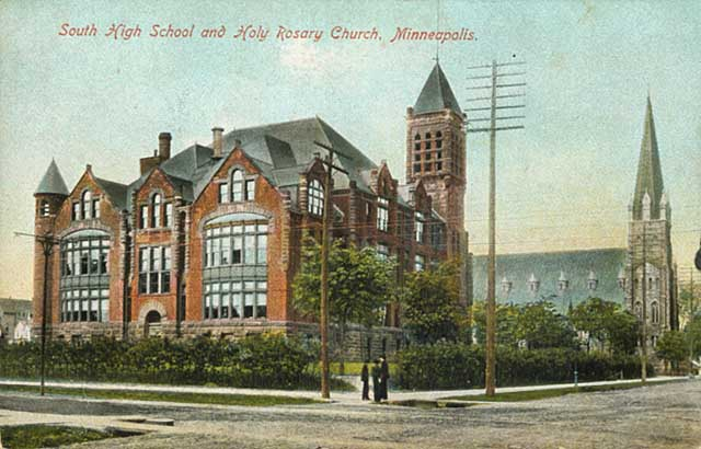 South High School, East Twenty-Fourth and Cedar, Minneapolis. Photograph Collection, Postcard ca. 1900